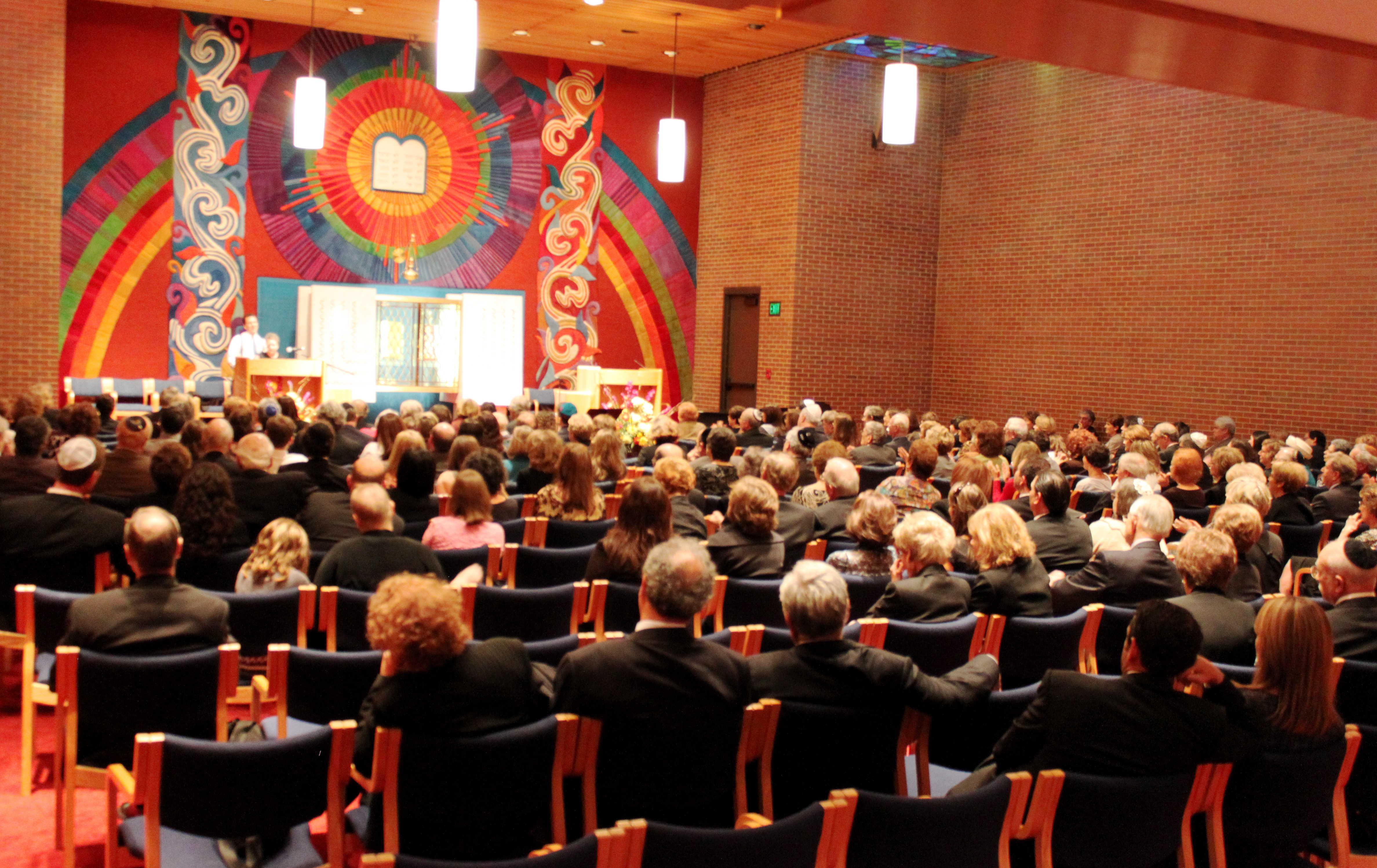 Chapel, Temple Israel (Memphis, Tennessee)